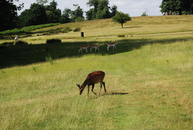 Deer, Knole Park